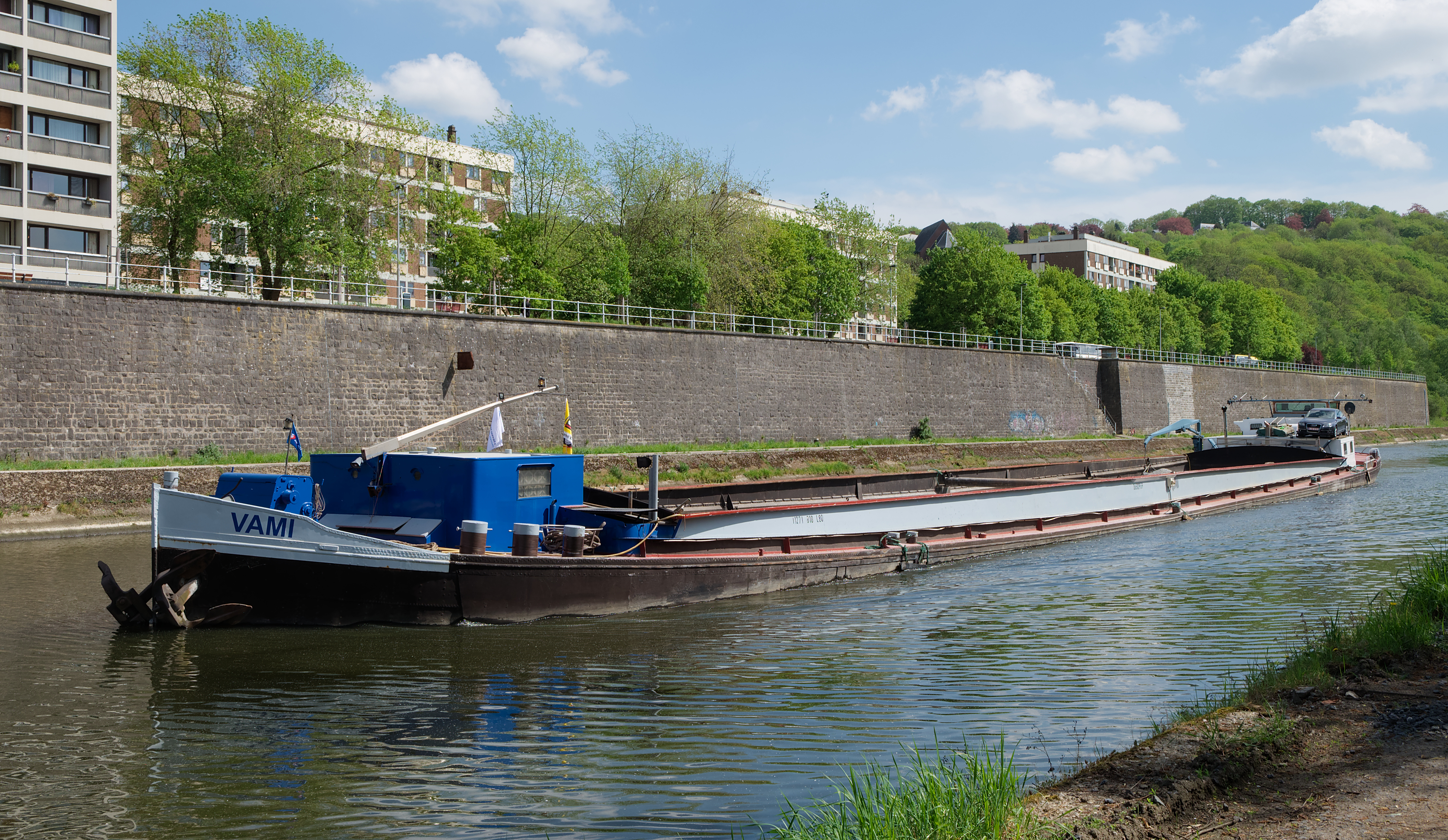 Vami péniche on the Sambre river in Namur